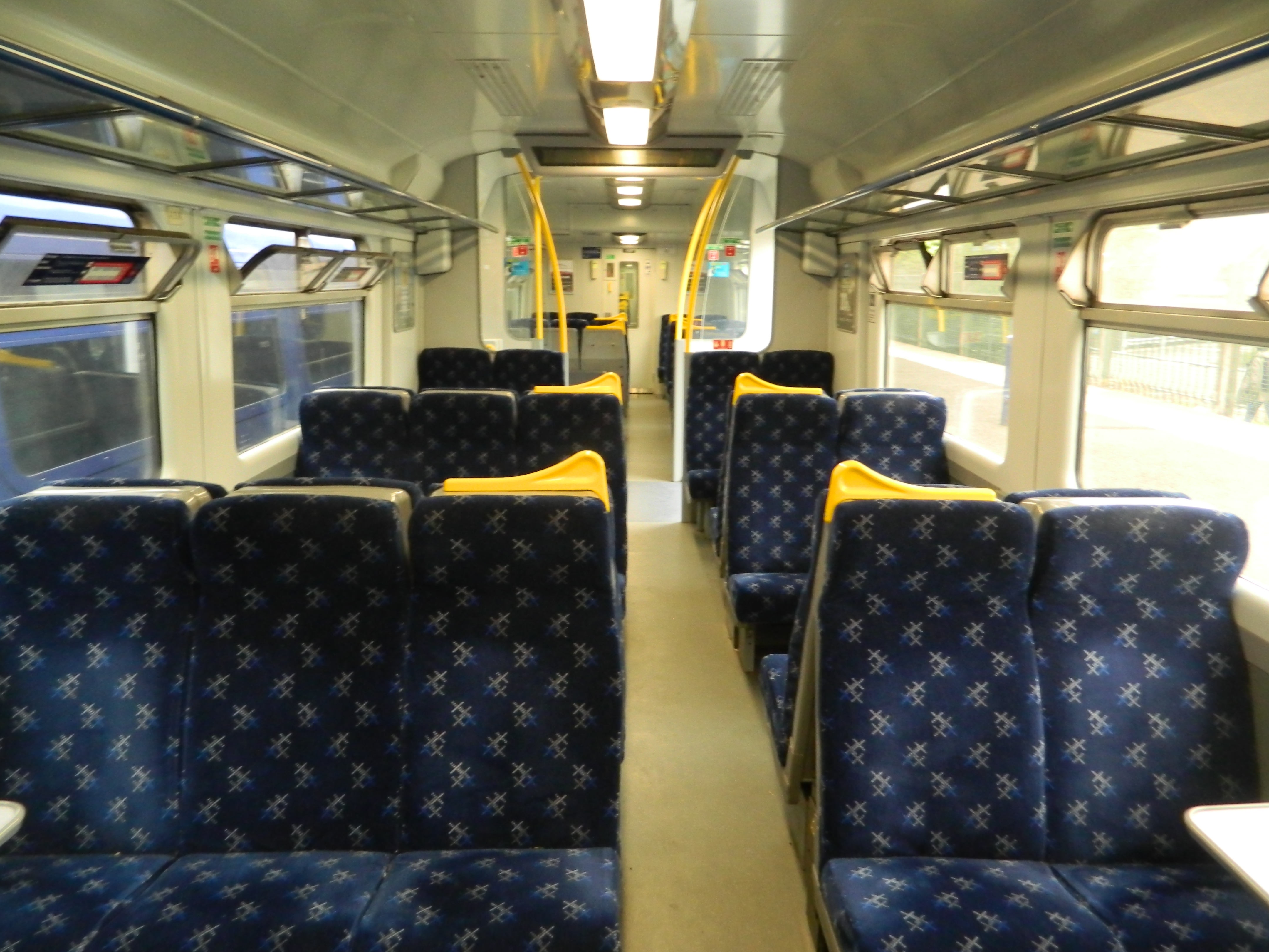 The ScotRail Saltire interior of 318255.